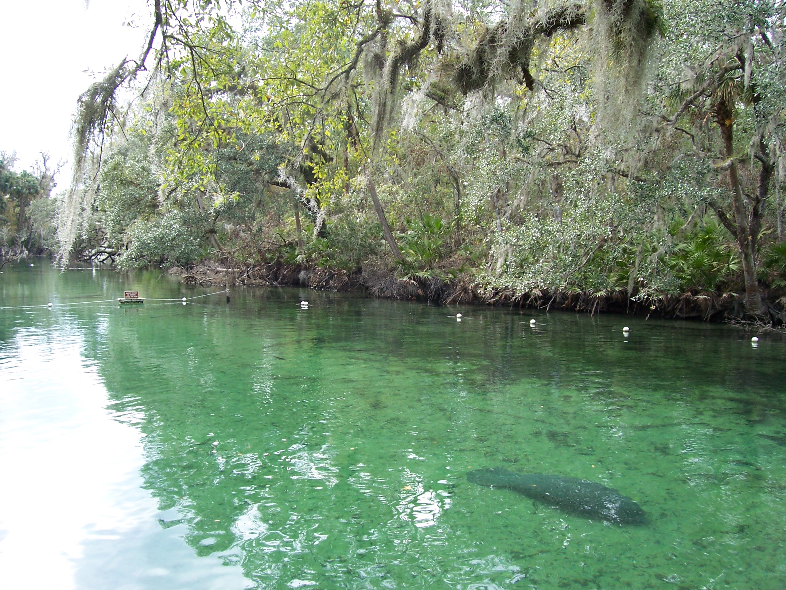 Manatee in Blue Spring Blue Spring State Park, Orange City, Florida, United States Photo taken December 2004 by Tetraminoe Copyright © 2004 by Gavin Baker. Some rights reserved. See photo's page on Flickr